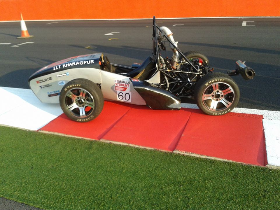 image of car